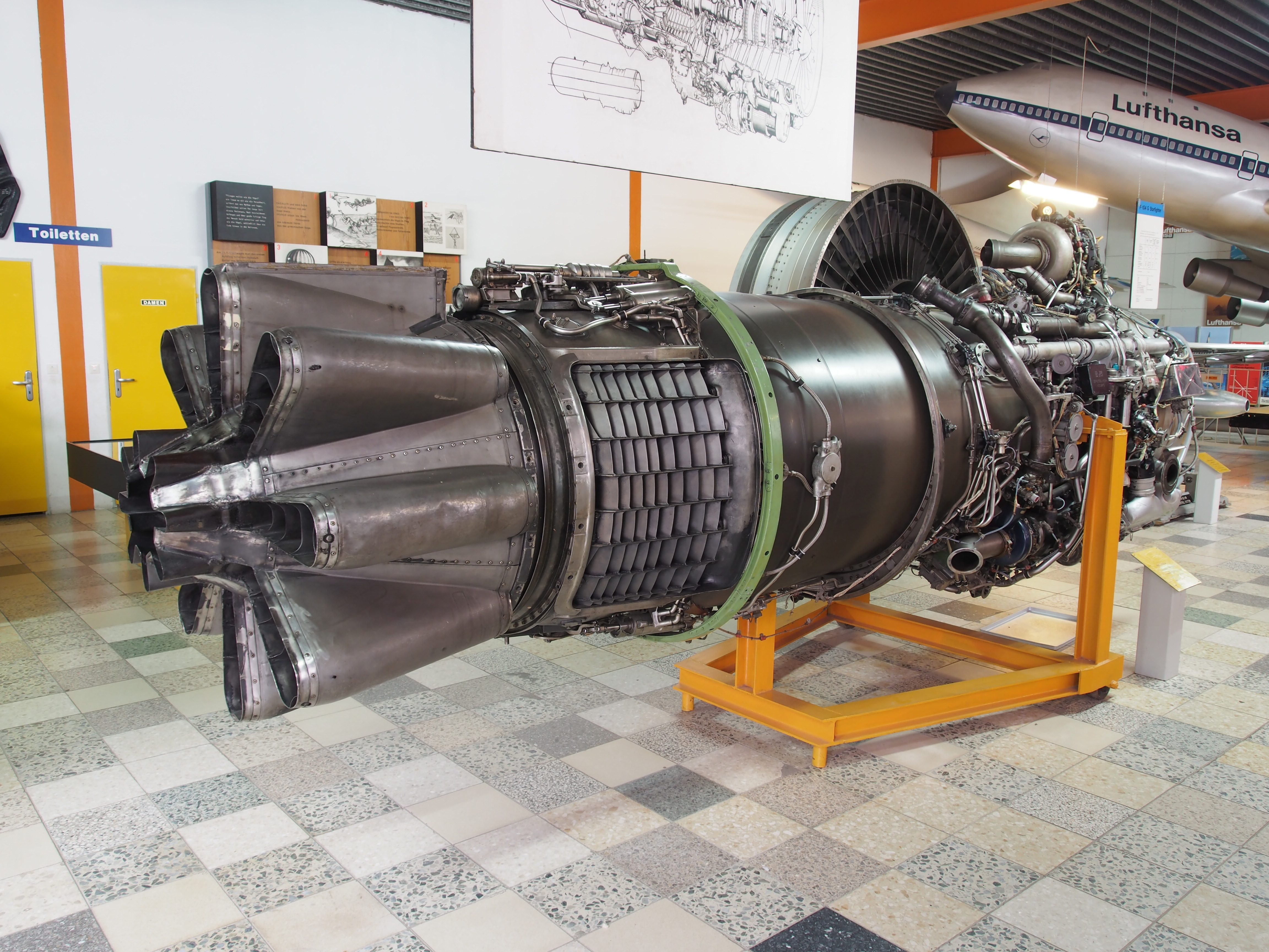 Photographed at Flugausstellung L.+P. Junior, Hermeskeil, Germany.